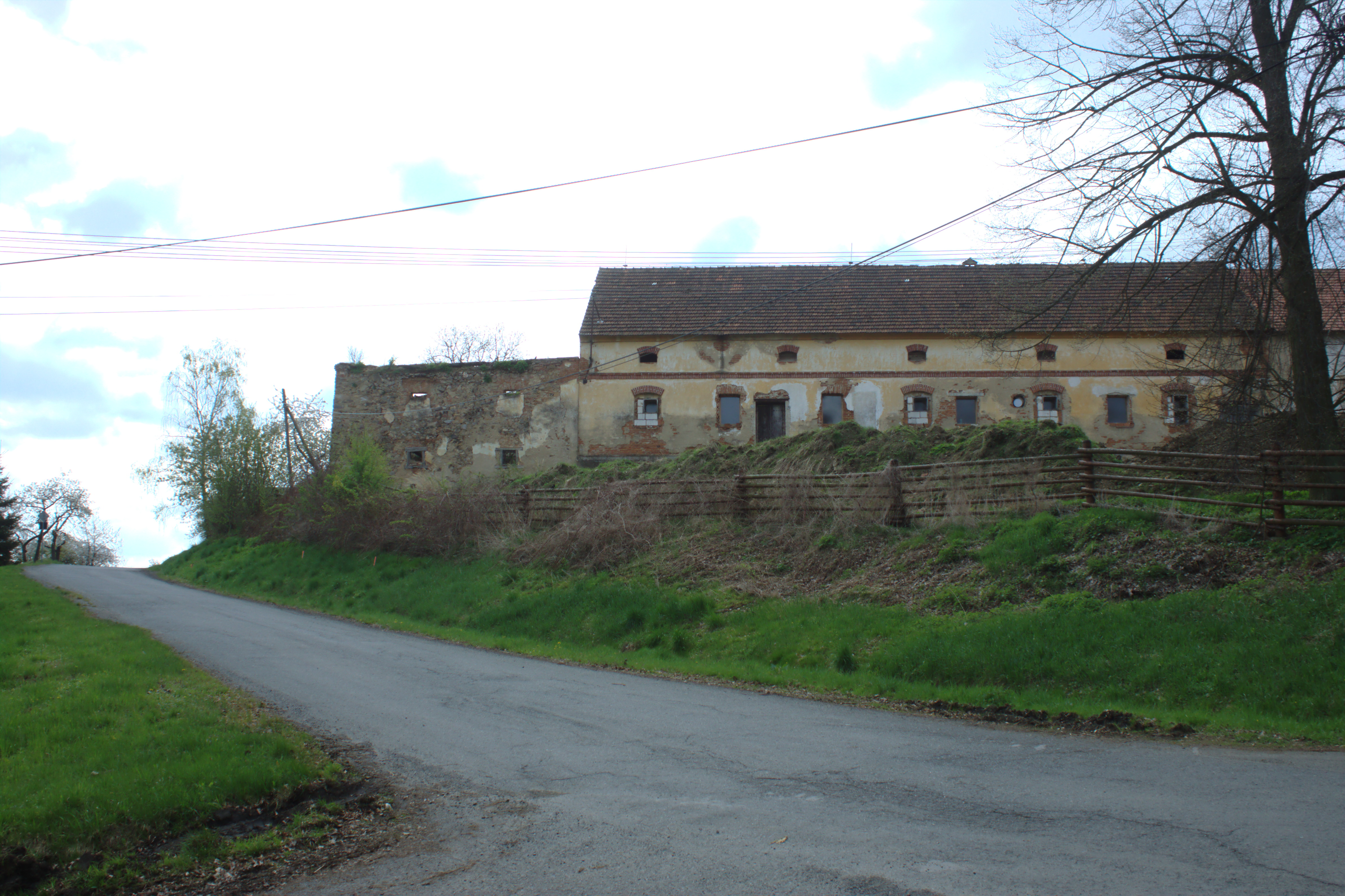 Buildings at the main road in the village of Zichov, Plzeň Region, CZ